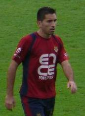 Charles